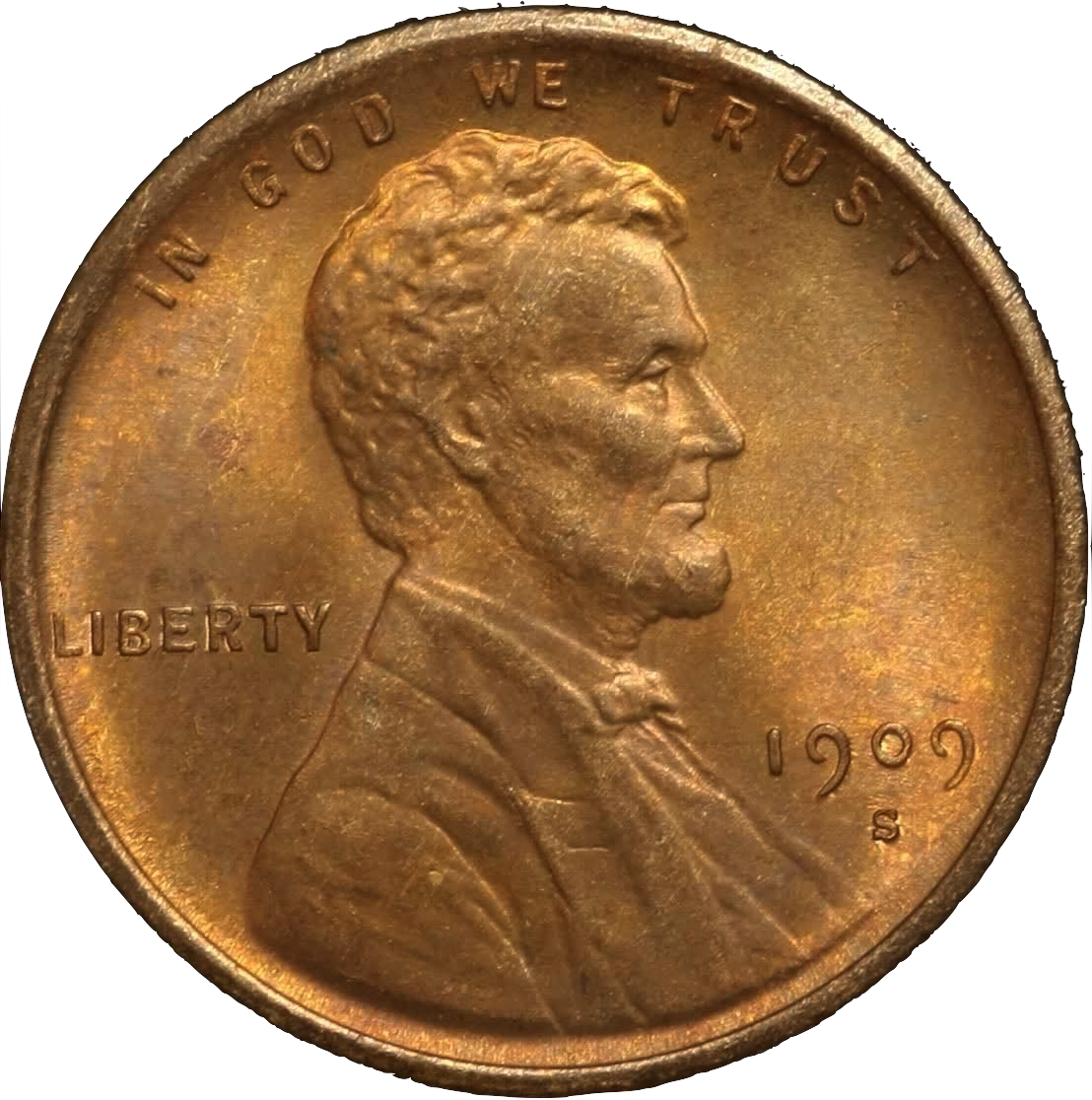 Obverse of a 1909-S VDB Lincoln cent with transparent background